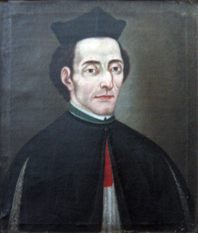 Hovhannes Karamatanenc